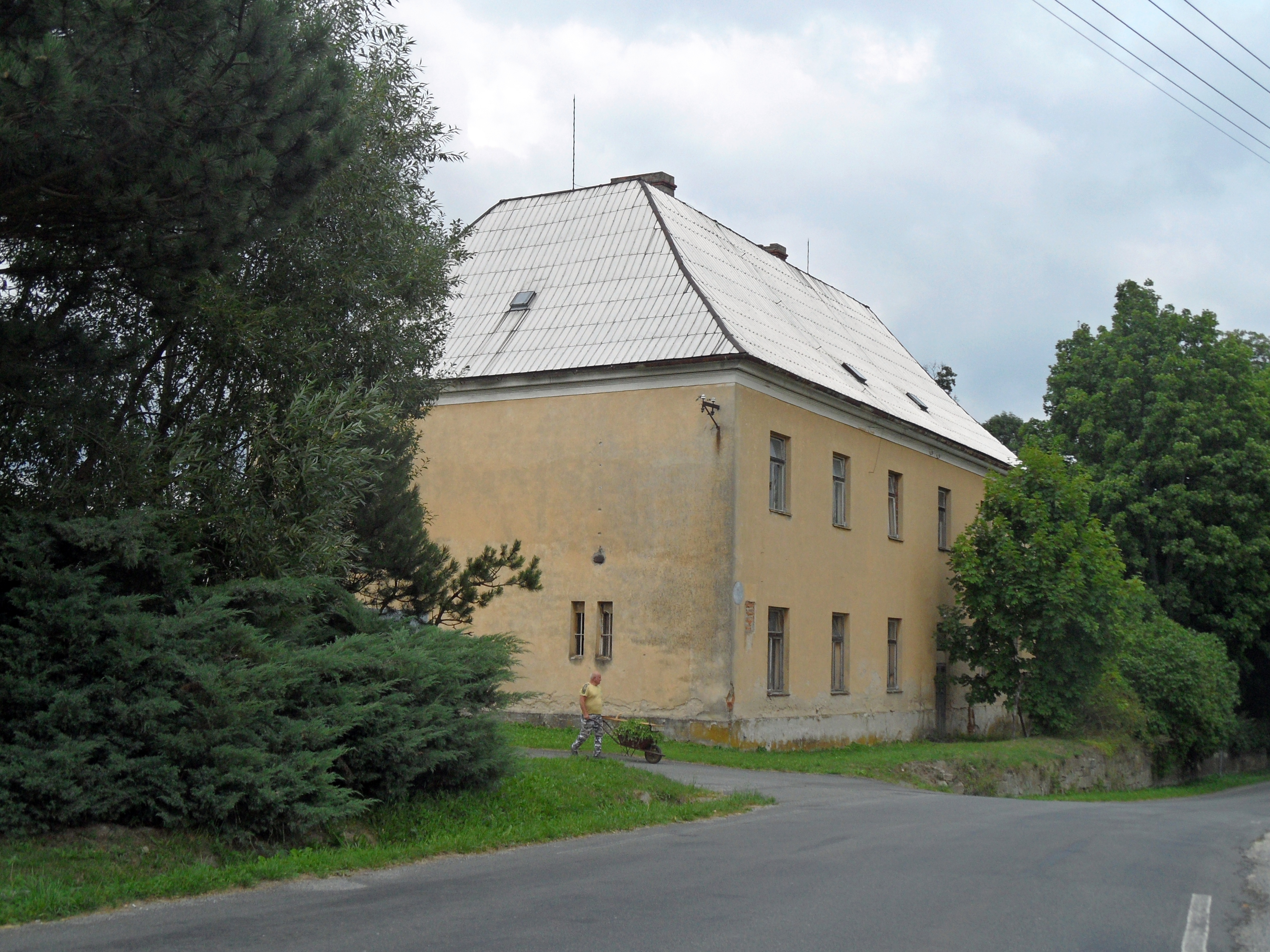 Dolní Červená Voda: Large House. Jeseník District, the Czech Republic.